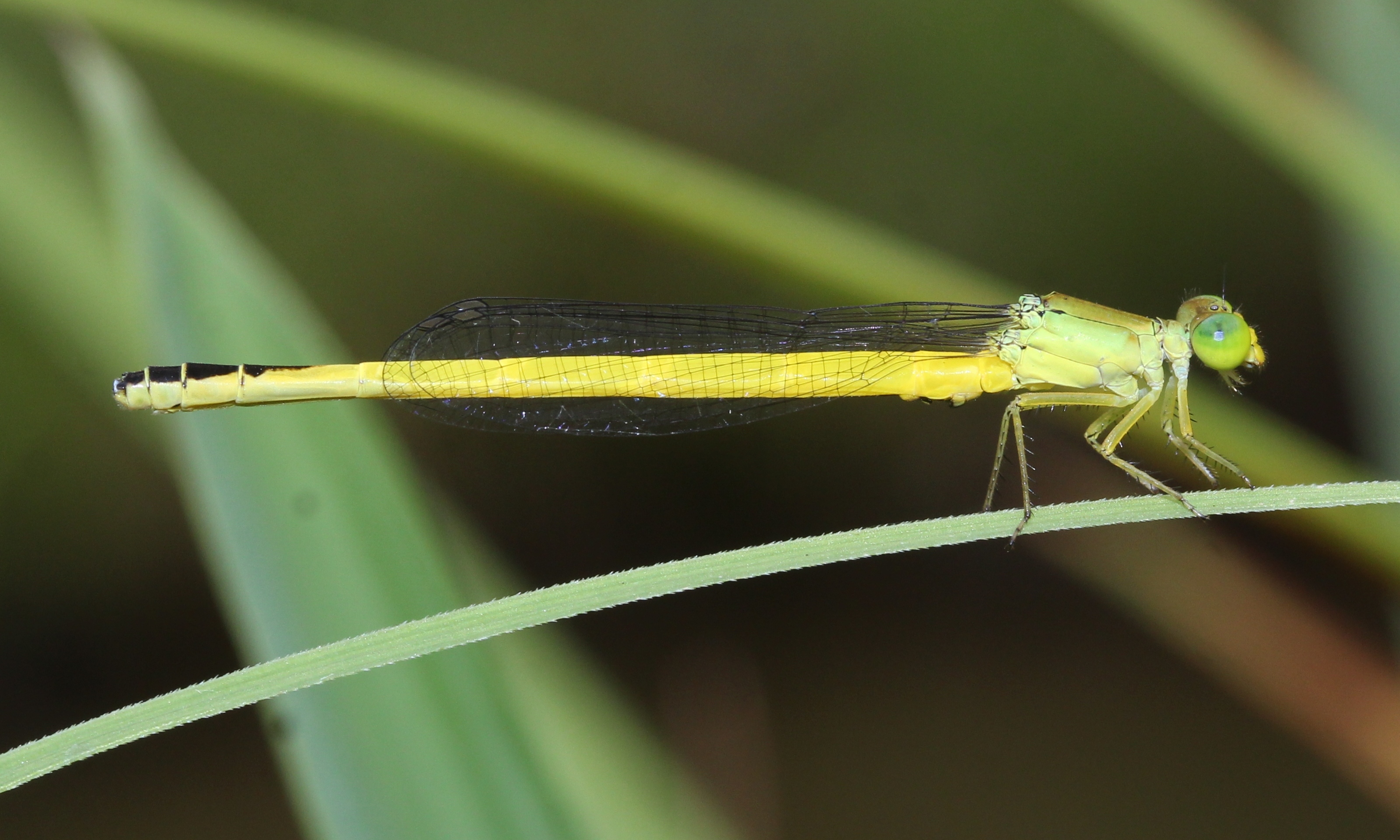 Male of Ceriagrion melanurum in Miroku Forest, Kasugai, Aichi prefecture, Japan.